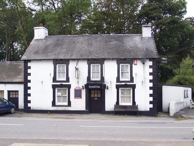 Synod Inn. The Synod Inn sits on the A487 near where the A486 and B4338 branch off.